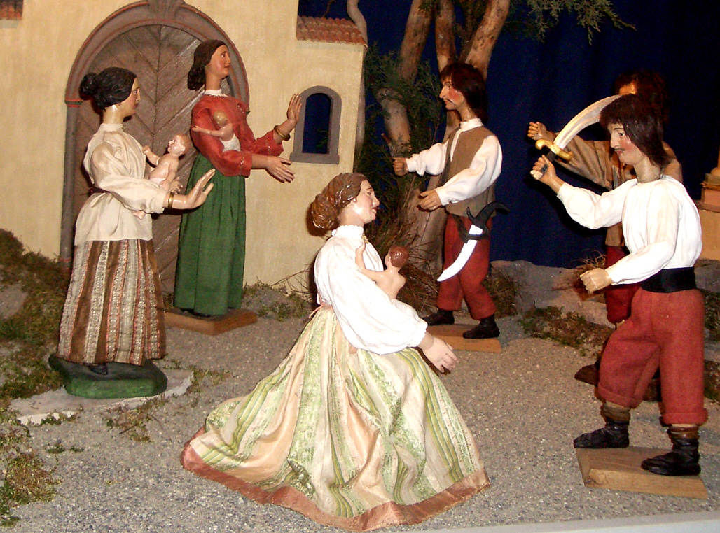 Gutenzell, Germany: Baroque nativity scene, Massacre of the Innocents (Betlehemitischer Kindermord)